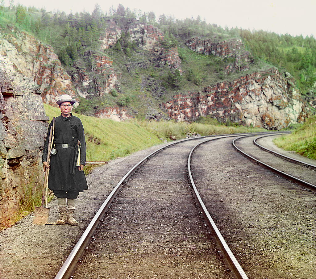 A Bashkir who worked on the Railway (1910)